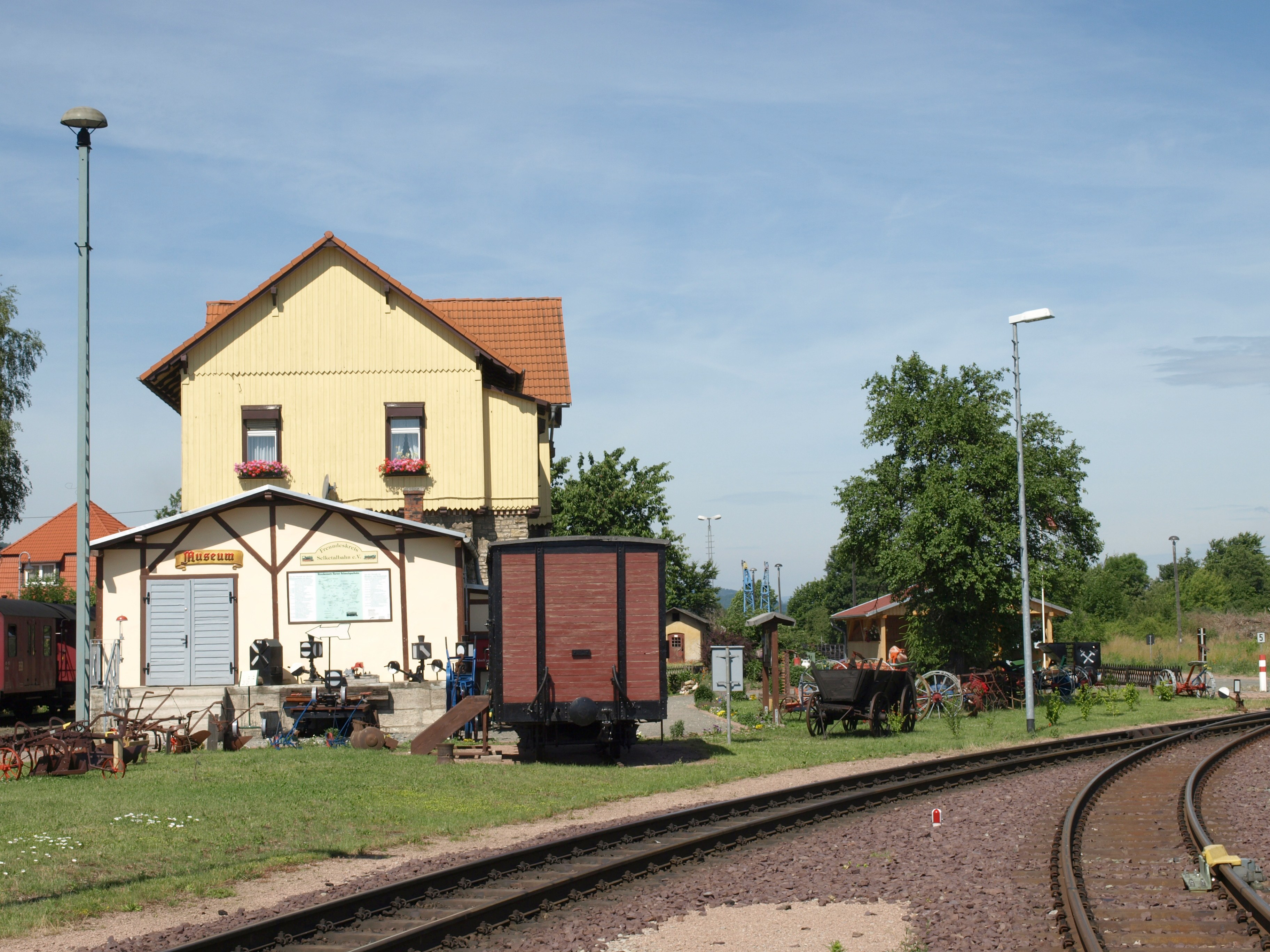 Station of the narrow gauge railway in Gernrode, Saxony-Anhalt